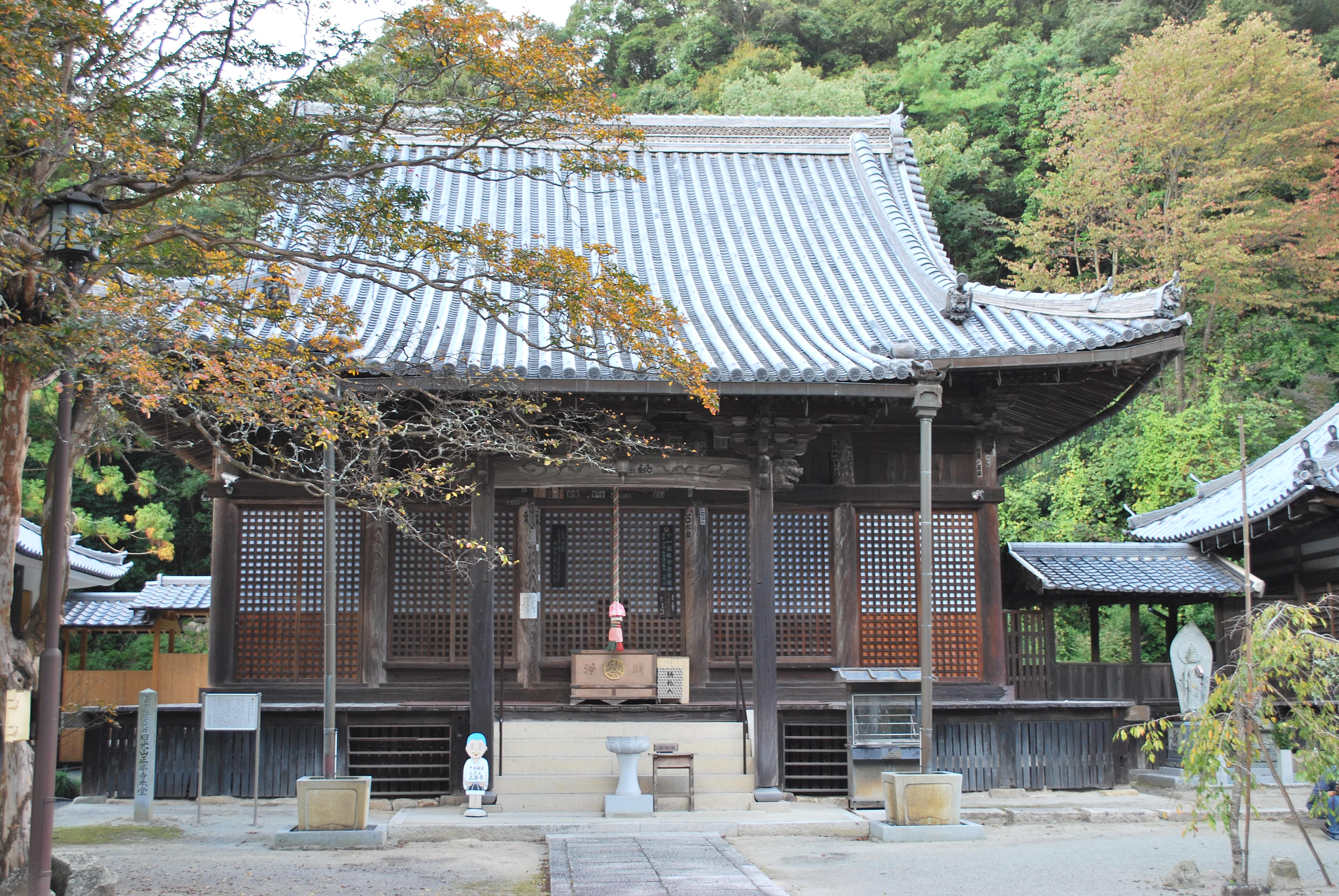 Main temple, Shōraku-ji